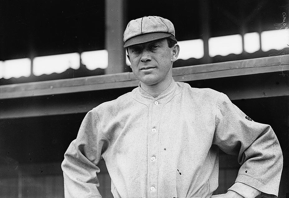 Miller Huggins, major league baseball player and manager